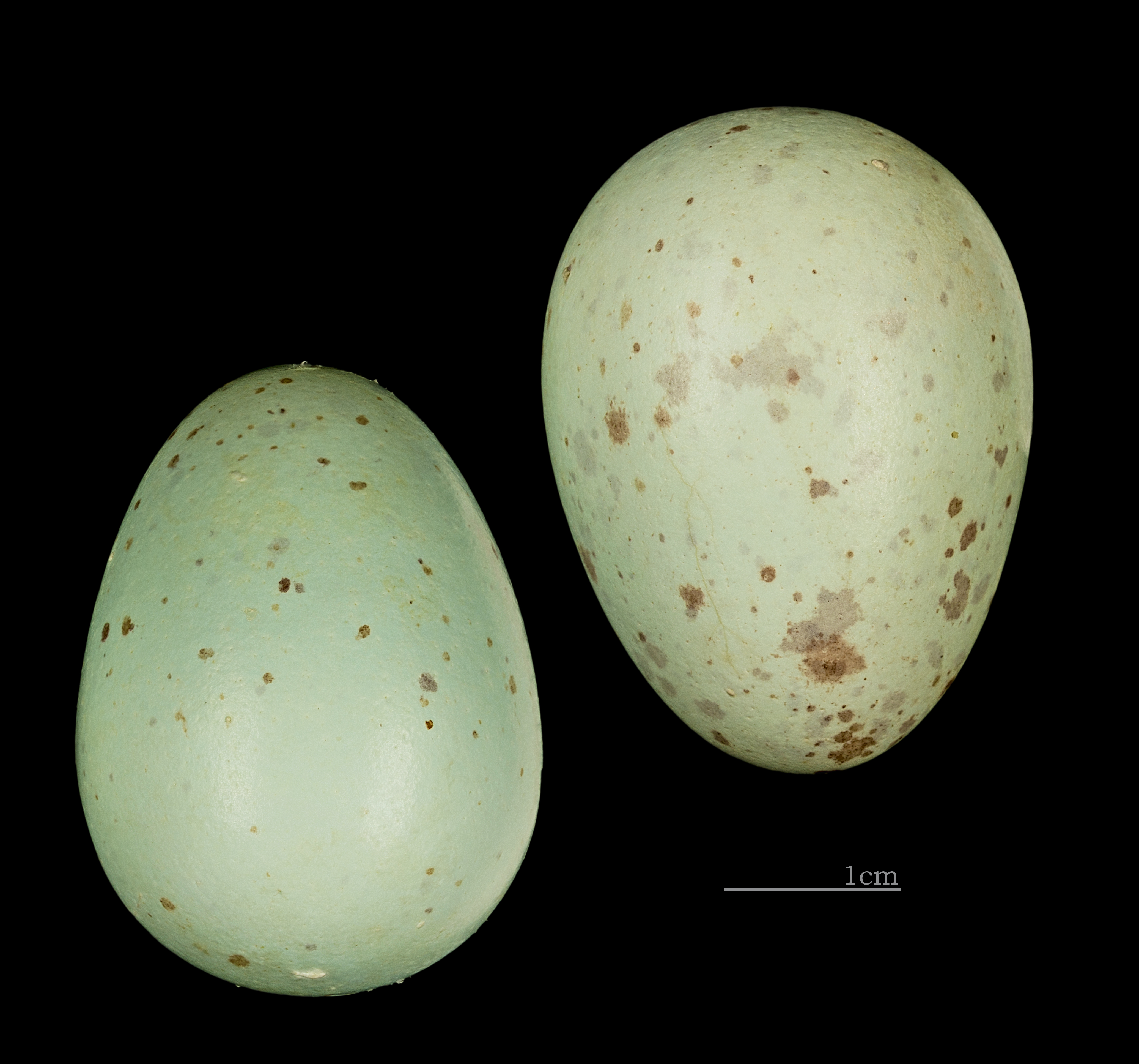 Egg of common hill myna Collection of Jacques Perrin de Brichambaut.